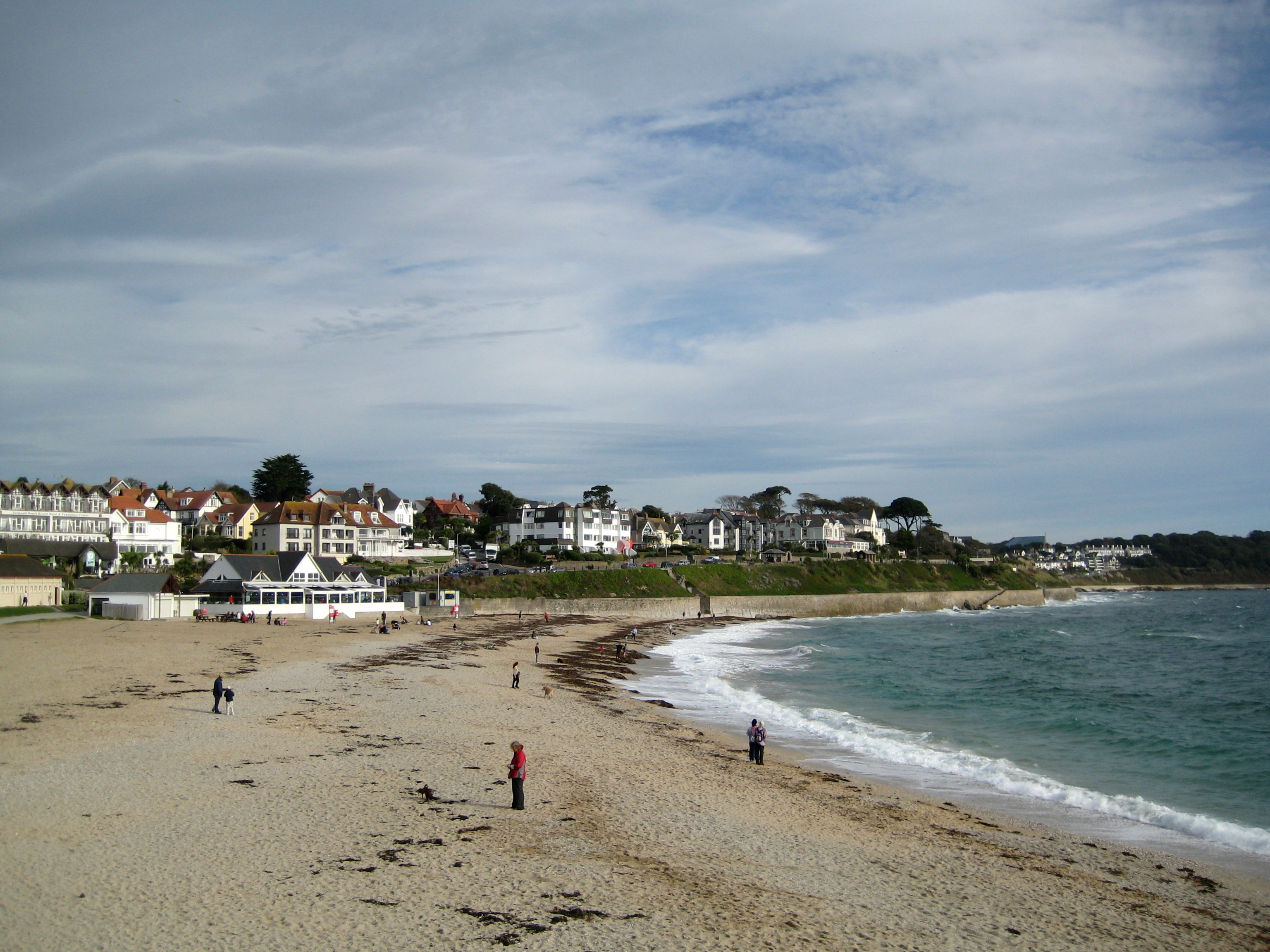 Gyllyngvase Beach, Falmouth